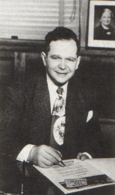 Sam Steinberg in the 1940's. Samuel Steinberg (1905 en Hongrie - 1978 à Montréal) est un homme d'affaires québécois. Il est le fondateur et PDG des magasins Steinberg, chaîne de supermarchés alimentaires québécoise.